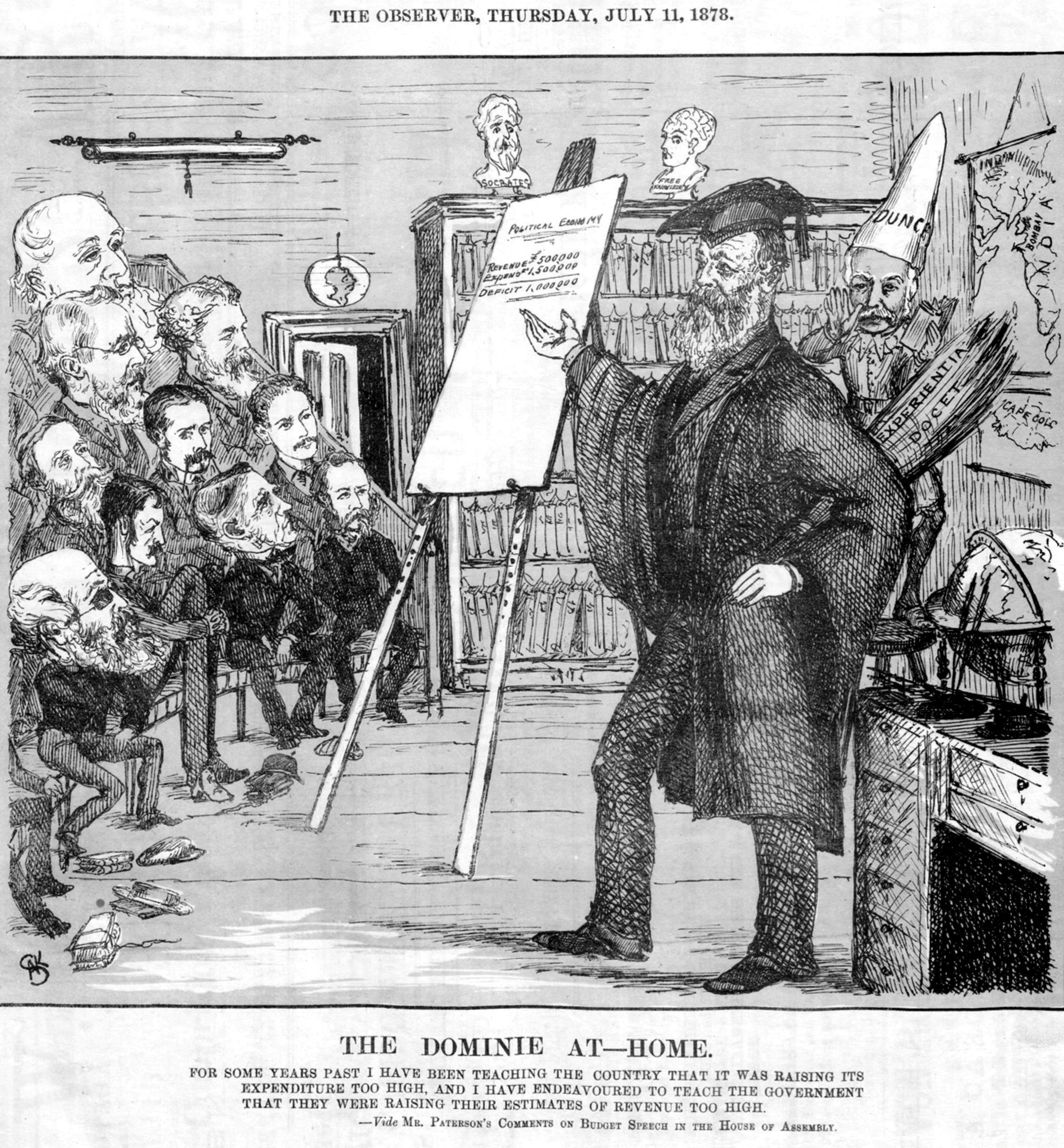 Port Elizabeth MP Jock Paterson lectures the MPs from the rest of the country on budgets and finance. Cape Observer newspaper, Impey Lithographers, Port Elizabeth, Cape Colony